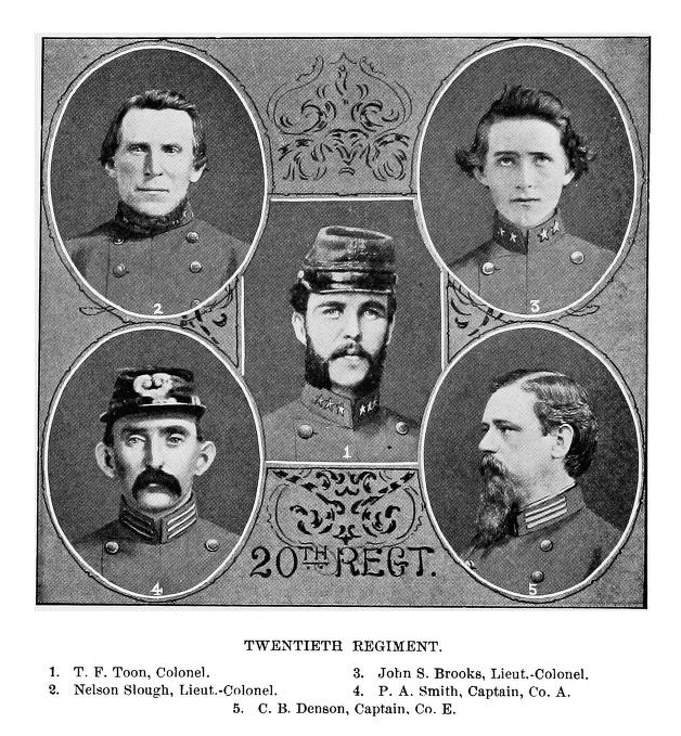 Officers of the 20th North Carolina Infantry from Walter Clark, editor, Histories of the Several Regiments and Battalions from North Carolina in the Great War, 1861-1865, 5 vols. Raleigh and Goldsboro, NC: E. M. Uzzell, Nash Brothers, printers, 1901